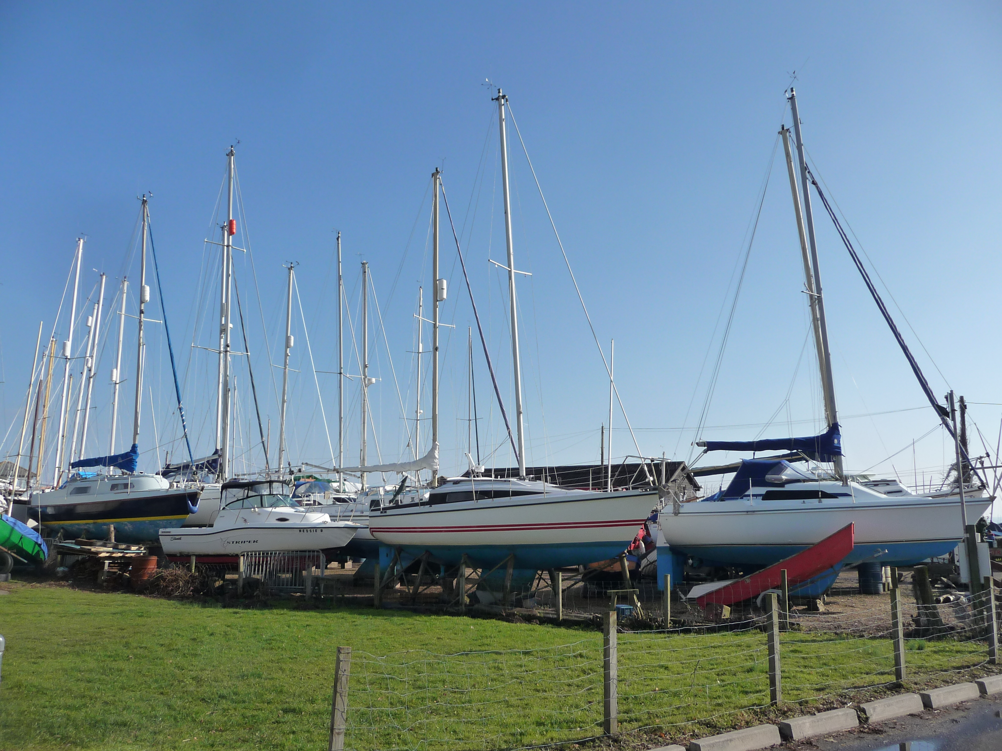 Keyhaven : Keyhaven Harbour Boats on land here in the harbour. Not out to sea on such a nice day.